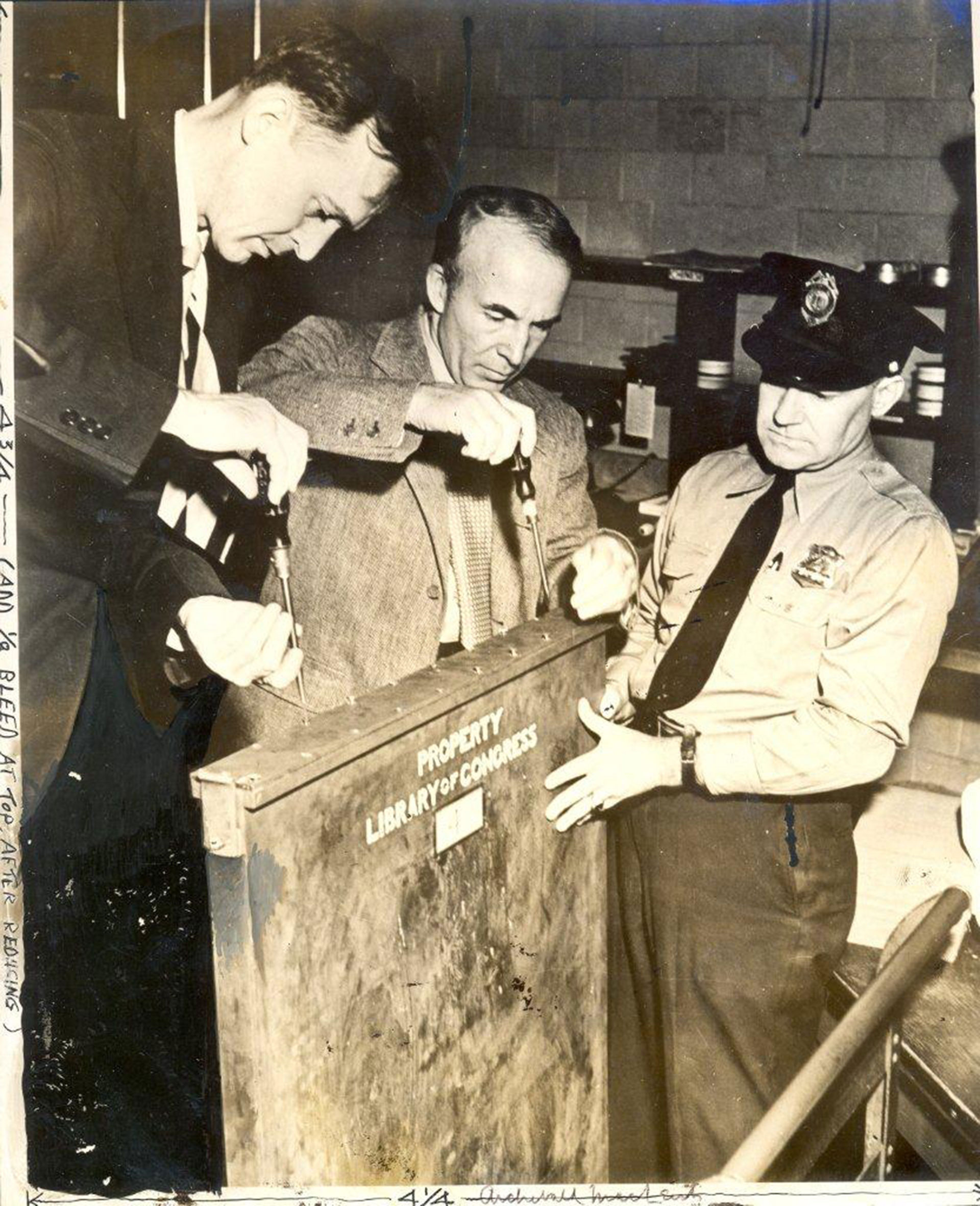 Photograph of Archibald Macleish unboxing crate holding the Declaration of Independence and US Constitution after arriving back to the Library of Congress on 1 October 1944 after having been stored at the United States Bullion Depository at Fort Knox since 1941 Caption reads as follows:Librarian of Congress Archibald MacLeish (center), himself takes a screwdriver to the case in which the great documents are sealed in bronze cylinders. In all, 4789 cases of documents, rare books, and incunabula (books printed before 1500) were returned to the Library of Congress from five hiding places in Virginia and Ohio. The photograph is in a story about the return of important documents to the Library of Congress after being sent to secure locations at the outbreak of World War 2. The story mentions a "secret" hiding place which in later years was revealed to be Fort Knox. The photograph shows the case being opened as "#4", which in later years was revealed to have housed the Consitution of the United States and the Declaration of Independence, which were stored at Fort Knox. See Puleo, Stephen. American Treasures (p. 180). St. Martin's Press.